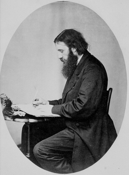 George MacDonald writing. This was first published in Carroll's biography by his nephew: Collingwood, Stuart Dodgson (1898) The Life and Letters of Lewis Carroll, London: T. Fisher Unwin, pp. p. 98 Retrieved on 22 December 2010.